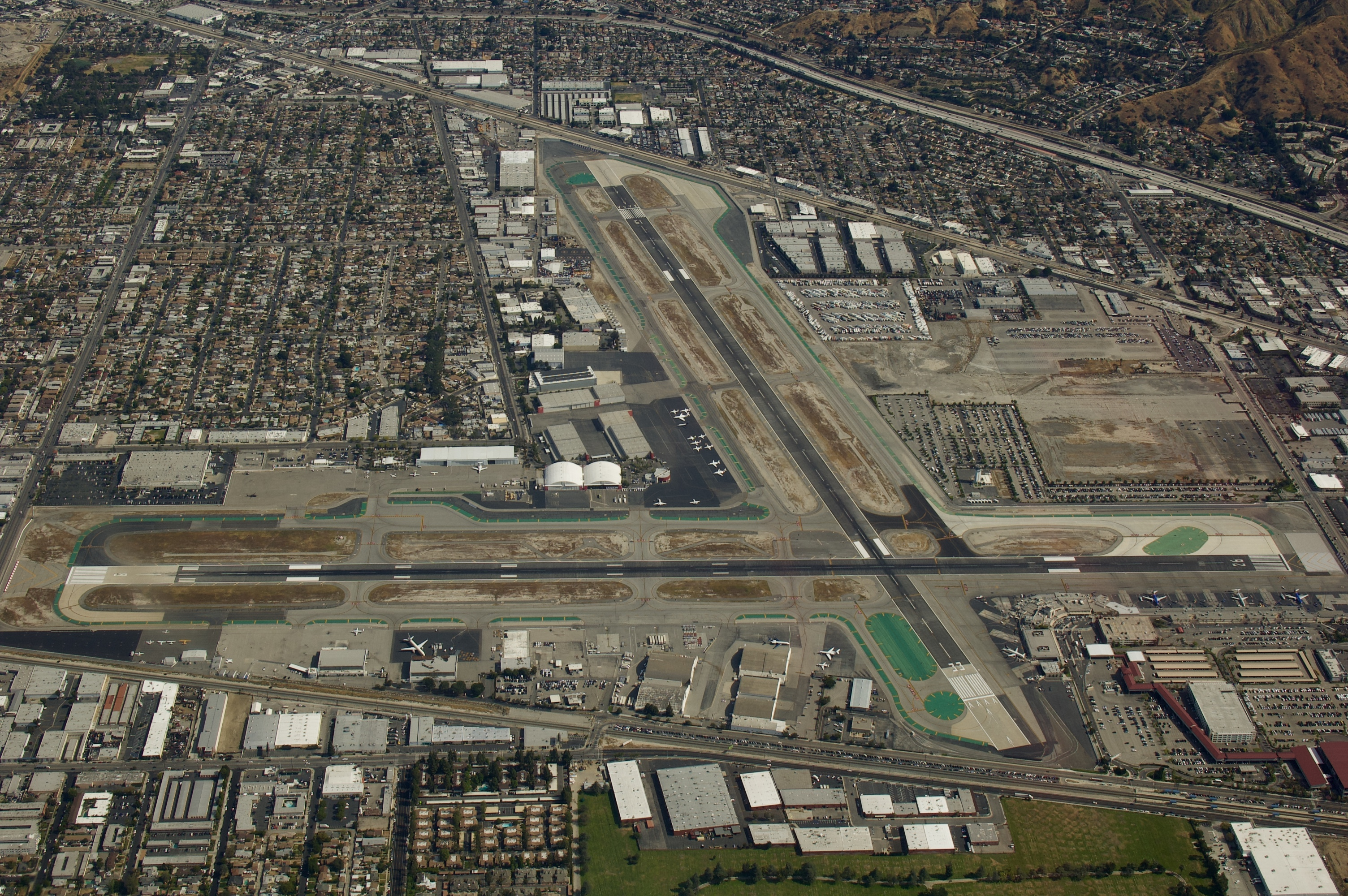 Bob Hope Airport (KBUR) as seen from the air